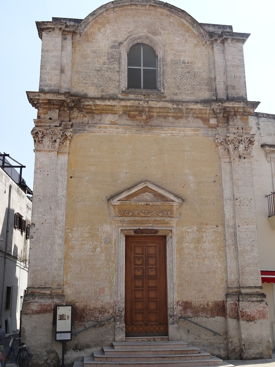 Mater Domini